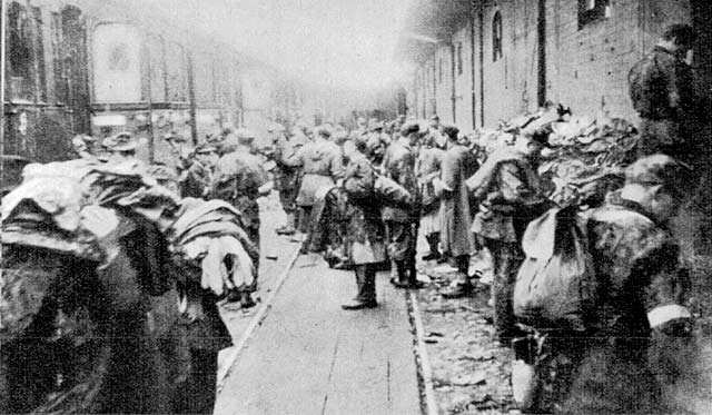 WarsawUprising: Insurgents in Waffen-SS magazines on 4 Stawki Street, which were taken over on August 1 1944 by platoon of Stanisława Janusza Sosabowskiego "Stasinka" from Kolegium "A" of Kedyw and which become main source of uniforms, food and equipment to "Radosław" regiment.